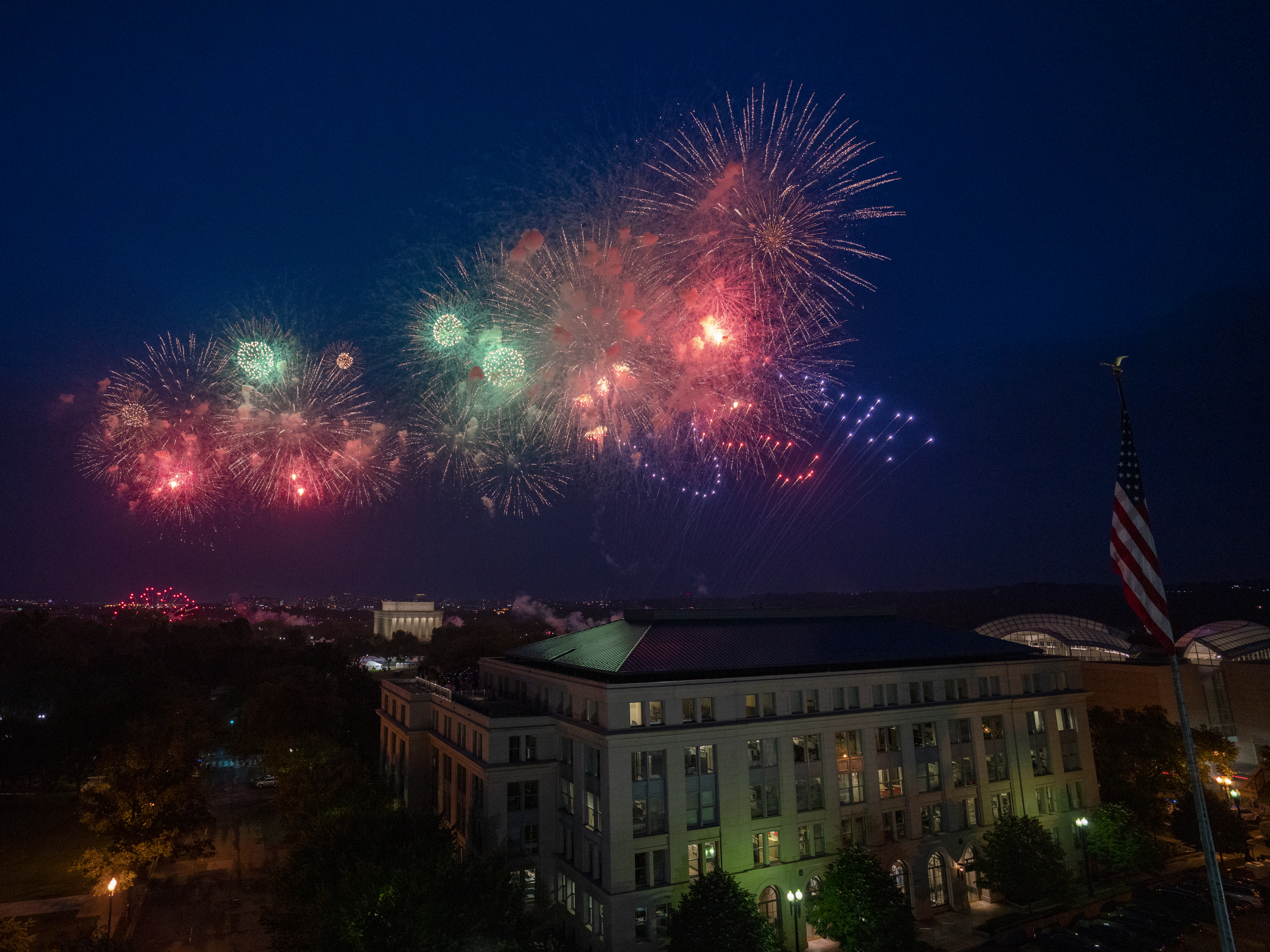 Secretary Michael R. Pompeo and Mrs. Pompeo host the Washington Diplomatic Corps partners and allies for a bird's-eye view of President Trump's Salute to America and the July 4th fireworks in Washington, D.C., on July 4, 2019. [State Department photo by Ron Przysucha/ Public Domain]